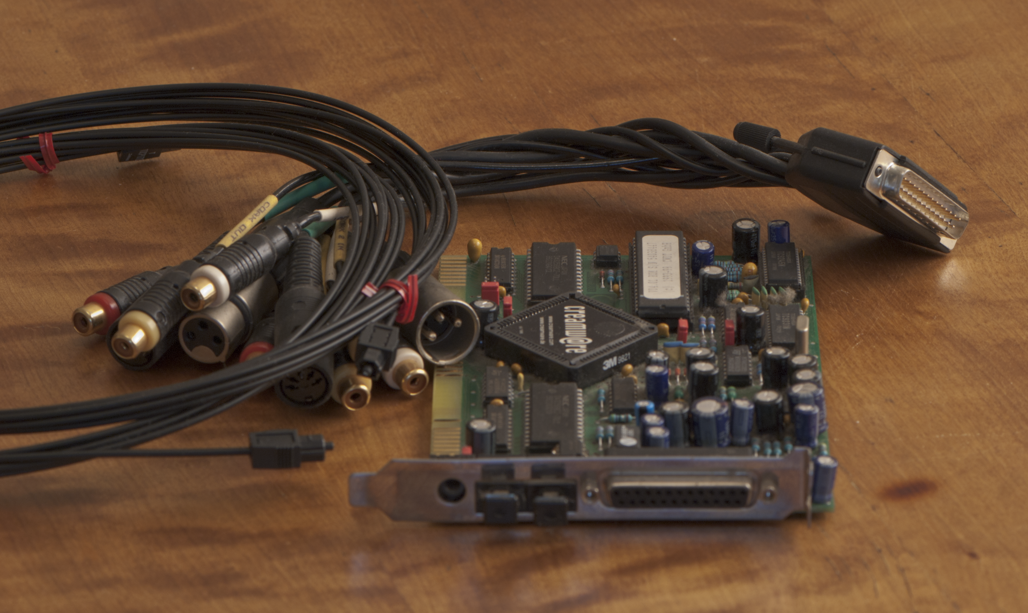 Creamware cutmaster Pro 1.png